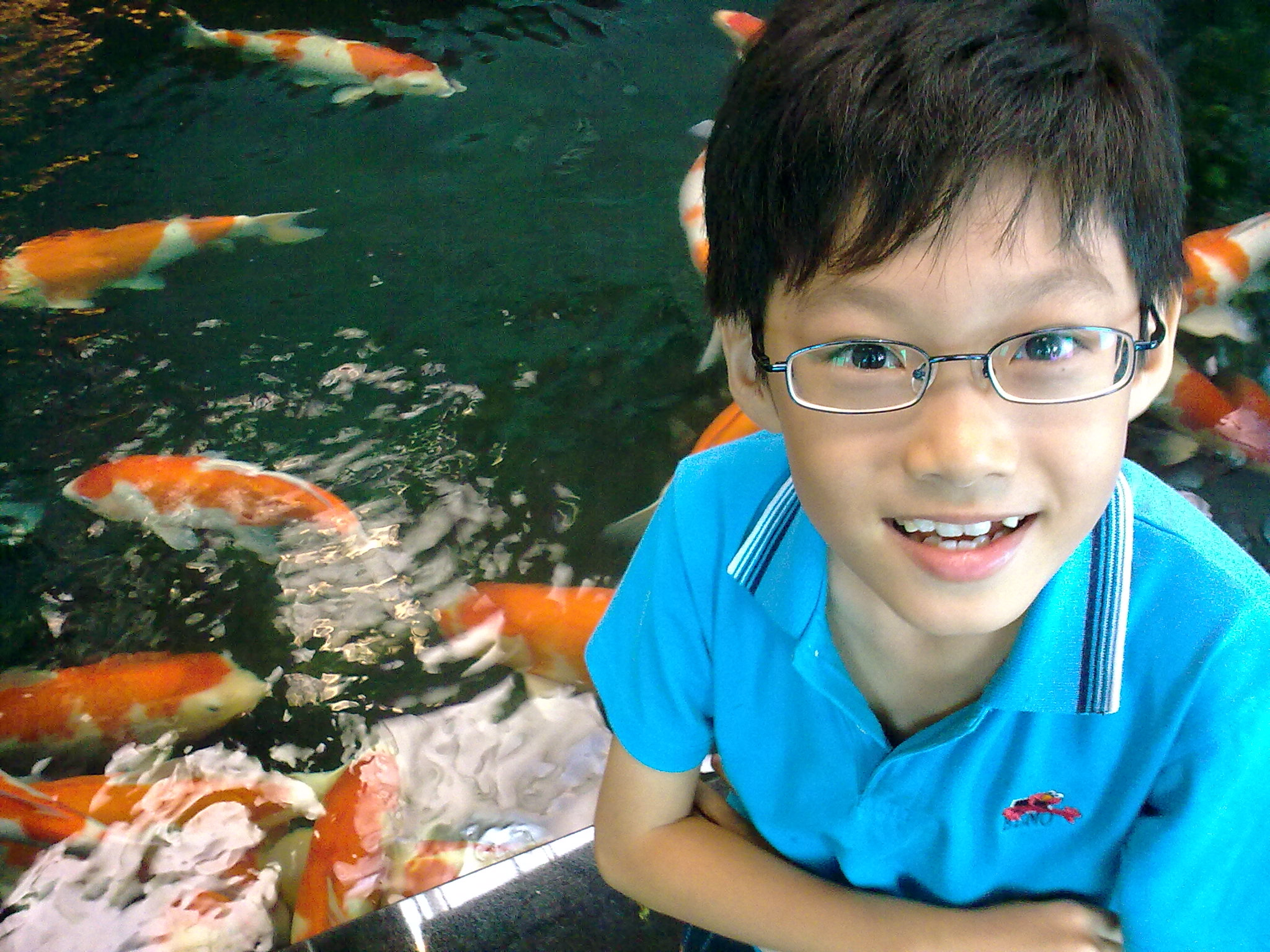 Young Singaporean computer programmer Lim Ding Wen.